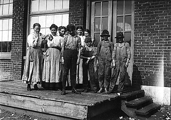 Group of workers in Central Mills. Sylacauga, Ala., 11/26/1910. Photographed by Lewis Hine.